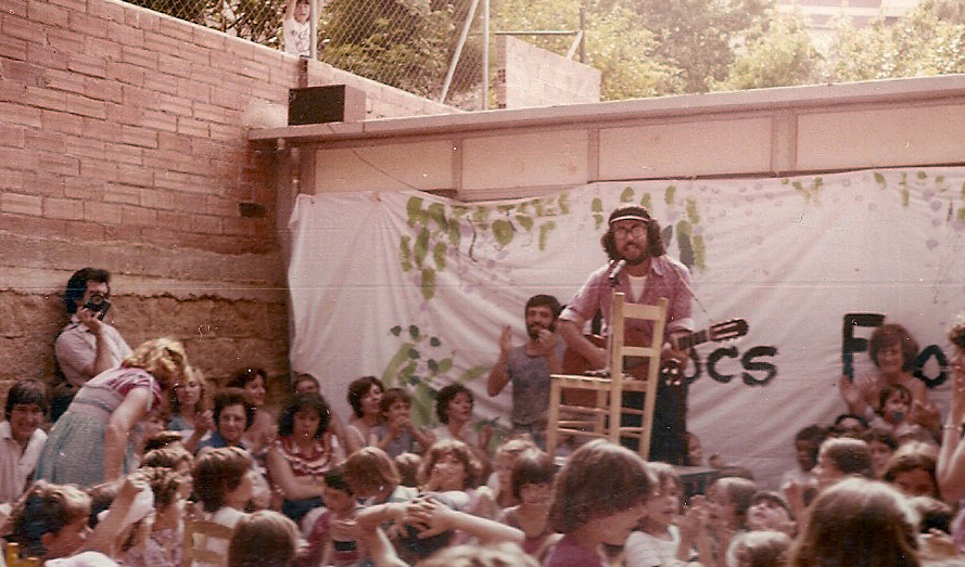 Xesco Boix performance in Angels Garriga School (Barcelona, Catalunya, Spain)